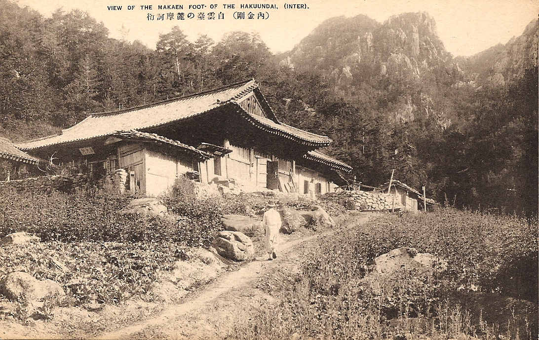 View of the Makaen (Mahayon), Hakuundai (Paekundae), Inner Kongo (Naegumgang), Korea.